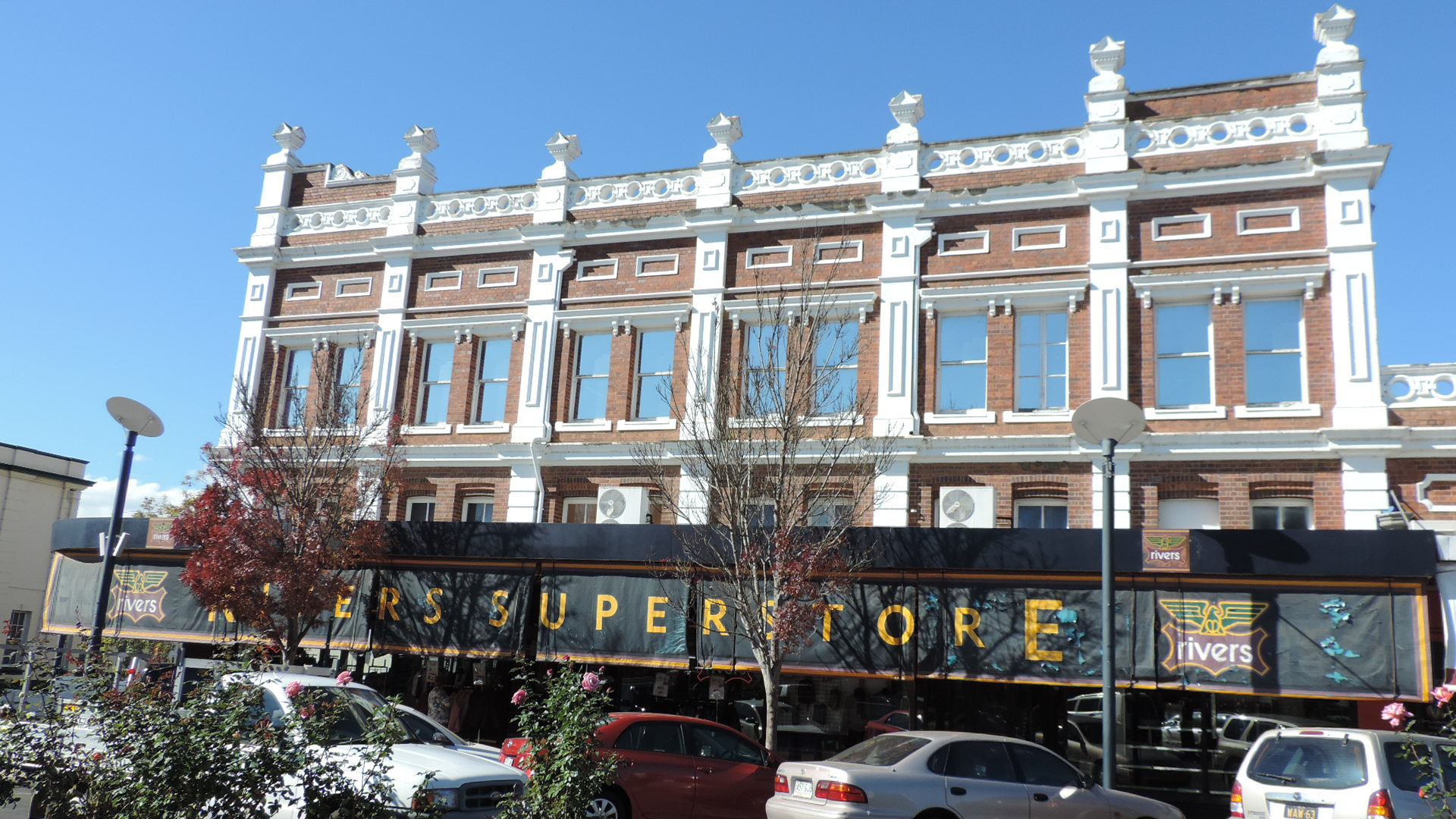 Smith & Miller Building, 118 - 124 Palmerin Street & 50 King Street, Warwick, 2015